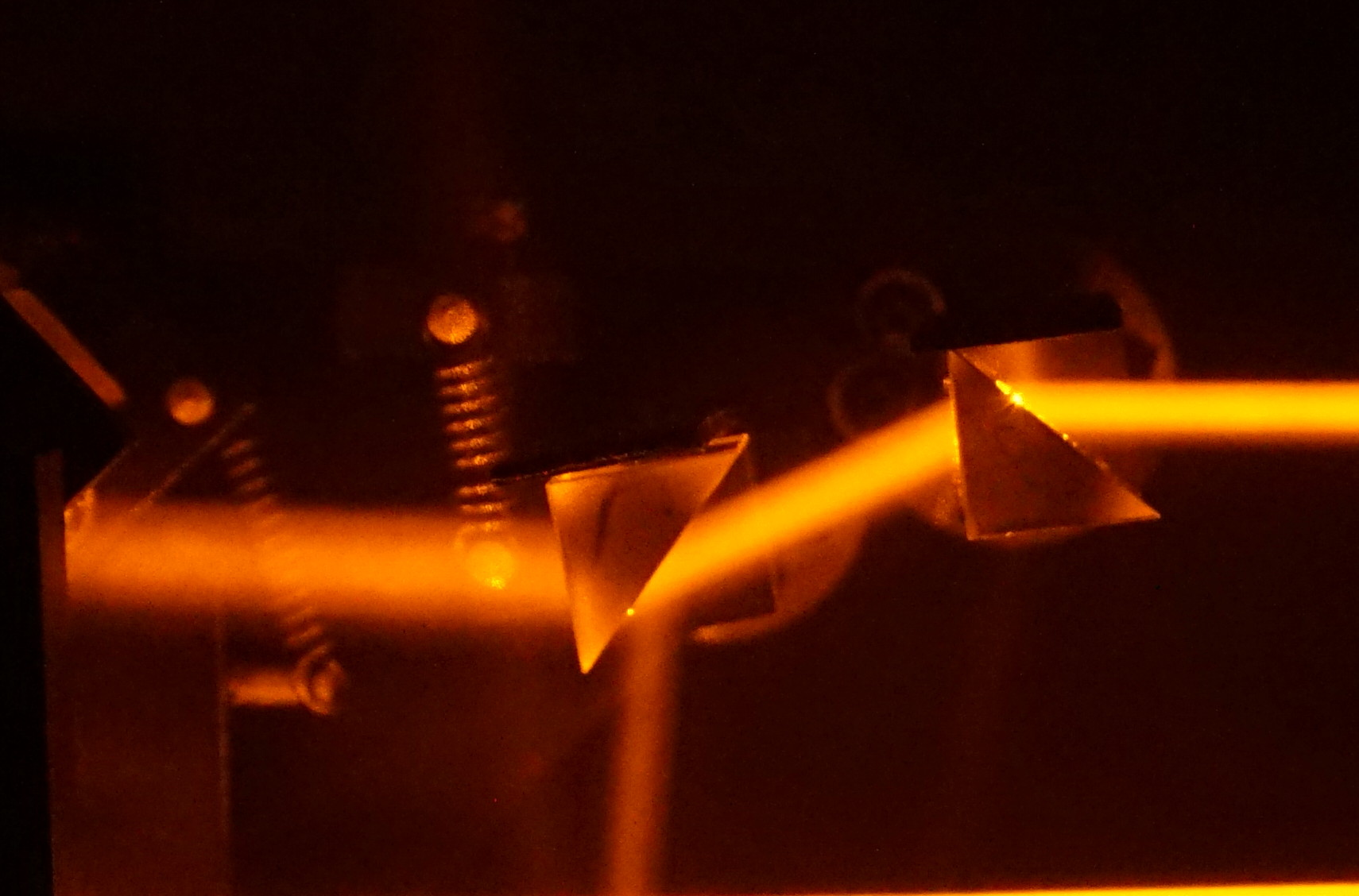 This pair of prisms is used to expand the laser beam across a diffraction grating , which is used as the end mirror in a dye laser.